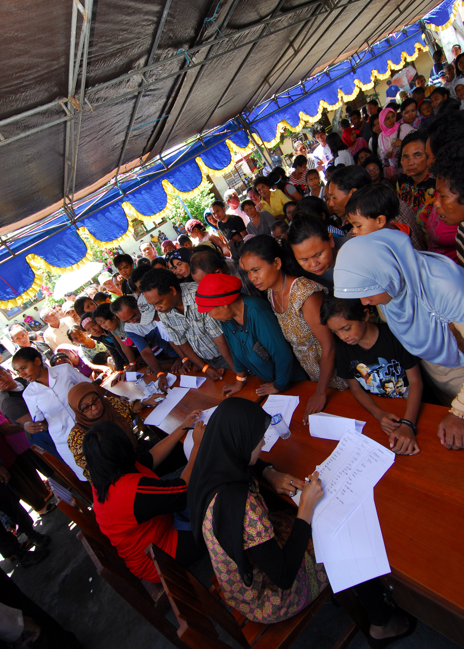 TOBELO, Indonesia (July 13, 2010) Patients queue at an engineering civic action program. The Military Sealift Command hospital ship USNS Mercy (T-AH 19) is in the North Maluku Islands supporting Pacific Partnership, the fifth in a series of annual U.S. Pacific Fleet humanitarian and civic assistance endeavors to strengthen regional partnerships. (U.S. Navy photo by Mass Communication Specialist 2nd Class Eddie Harrison/Released)